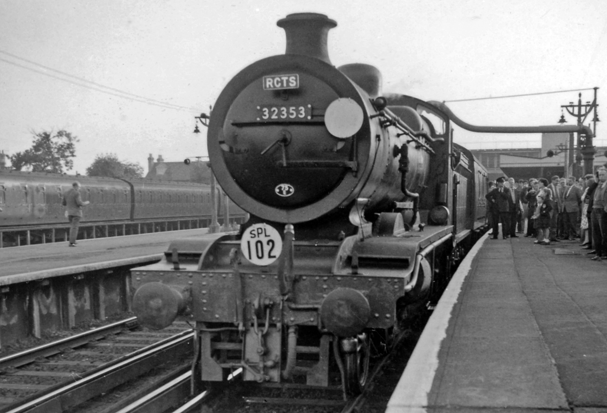 RCTS Sussex Rail Tour at Horsham. View southward, towards Littlehampton, Bognor and Portsmouth, also Brighton via Steyning - over which the Special had worked - see TQ3380 : London Bridge (Central ) Station, with 'Schools' 4-4-0 on a Rail Tour. Ex-LB&SC L. Billinton K class 2-6-0 No. 32353 was built 3/21 and withdrawn just after this trip in 12/62.